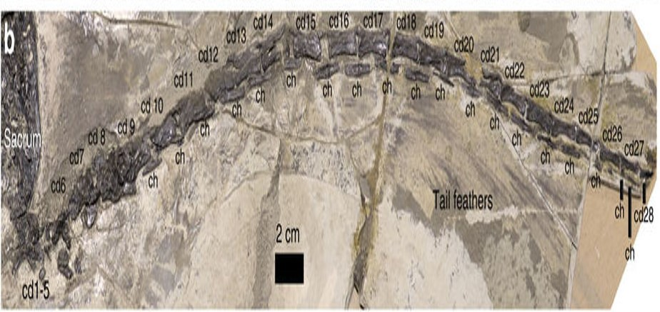 Figure 3: Vertebral column of Jianianhualong tengi holotype DLXH 1218. (a) Presacral vertebrae. (b) Caudal vertebrae. Scale bar, 2 cm. ax, axis; cd, caudal vertebra; ch, chevron; cr, cervical rib; cv, cervical vertebra.